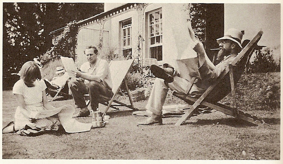 Teatime on a summer day at Ham Spray House, showing painter Carrington, her husband Ralph Partridge, and Lytton Strachey. Saxon Sydney-Turner in background.